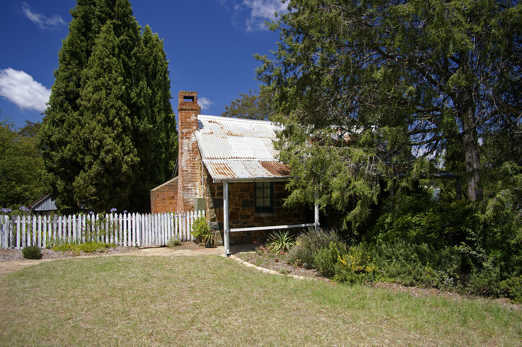 The historic Blundells' Cottage which was built around 1860 is one of very few historic buildings built by the first European settlers remaining in Canberra and the Australian Capital Territory.